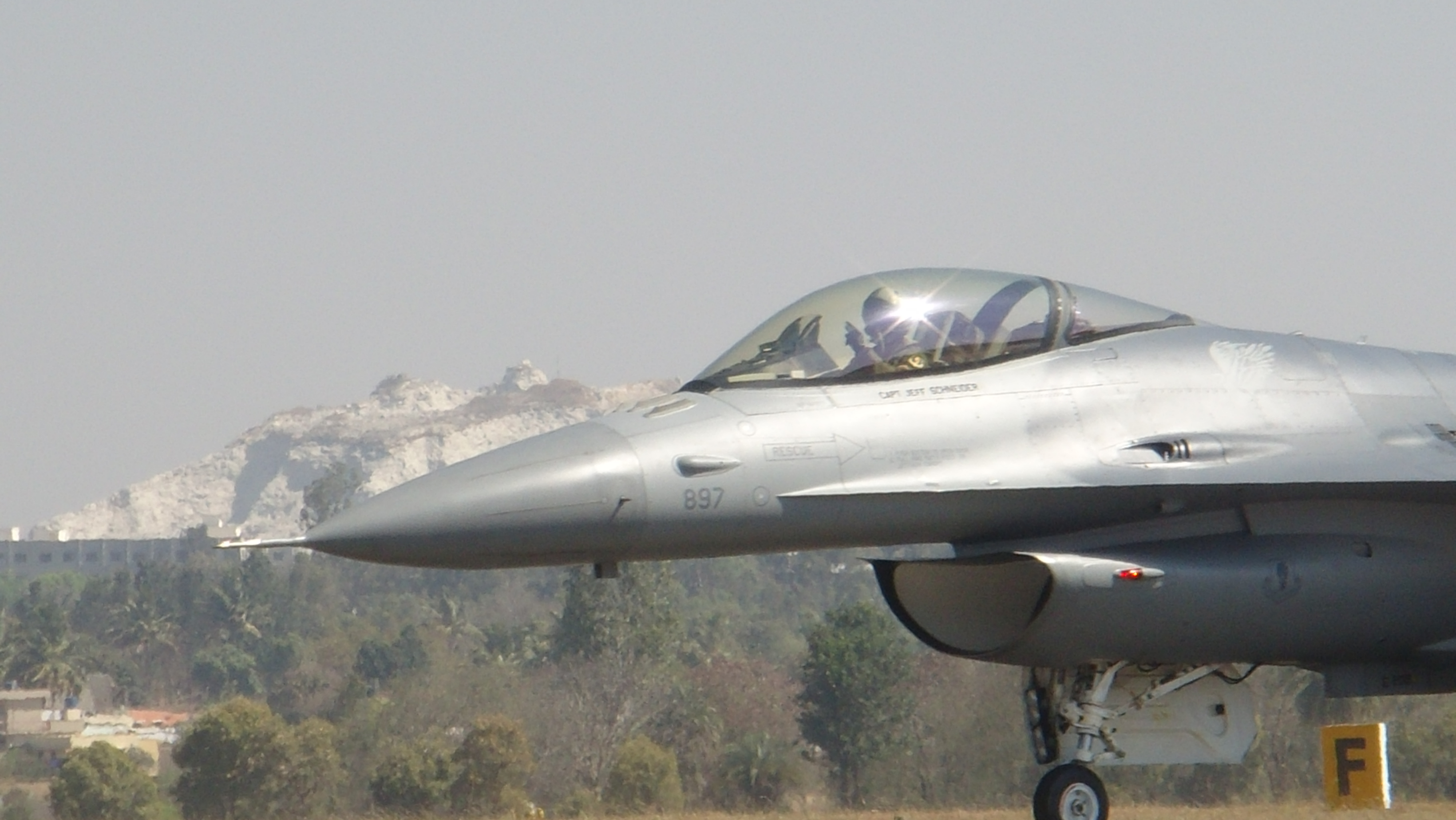 USAF F-16 Taxies towards the runway for his show at Aero India 2011, Yelahanka Air force base Bangalore.